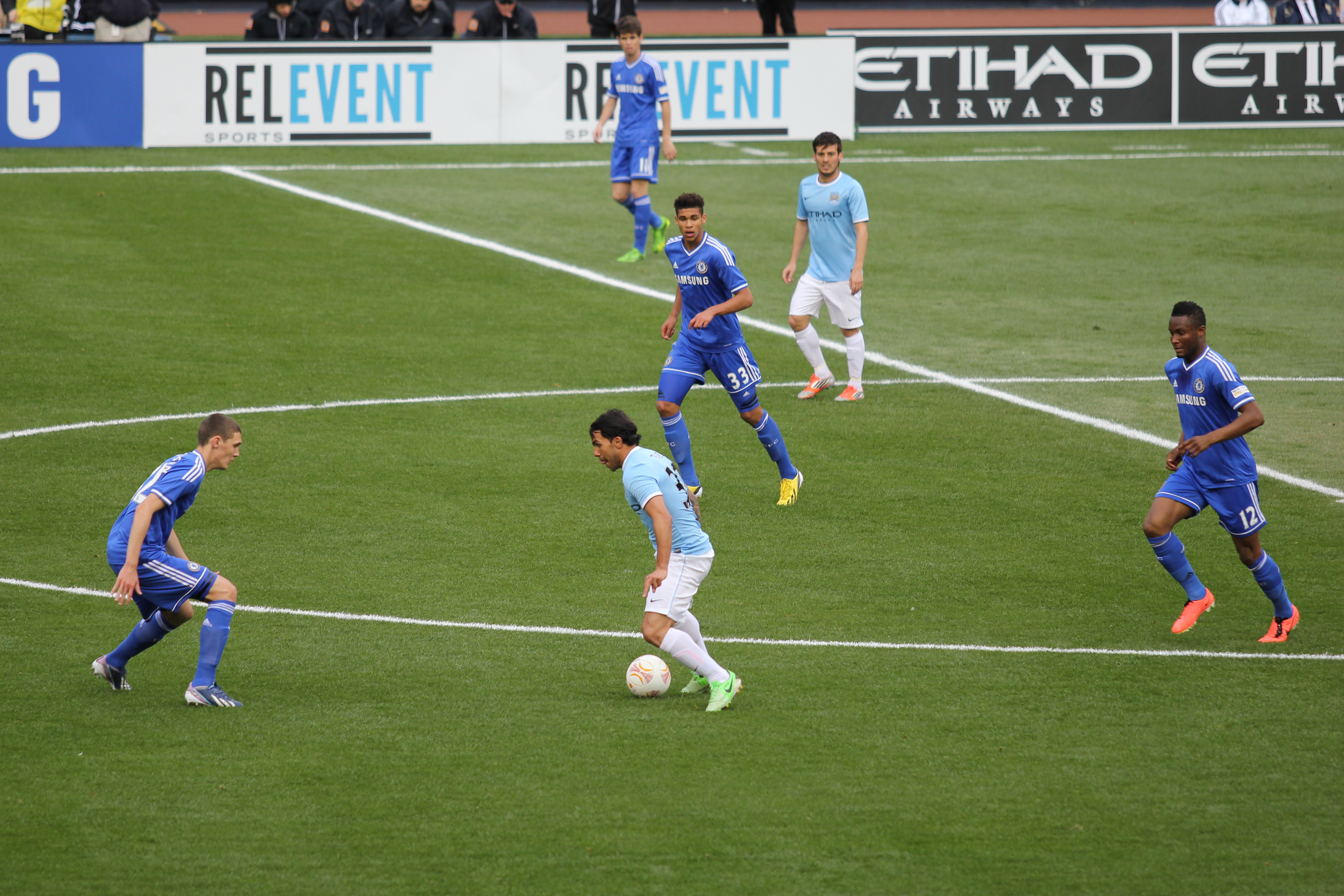 Chelsea FC-15